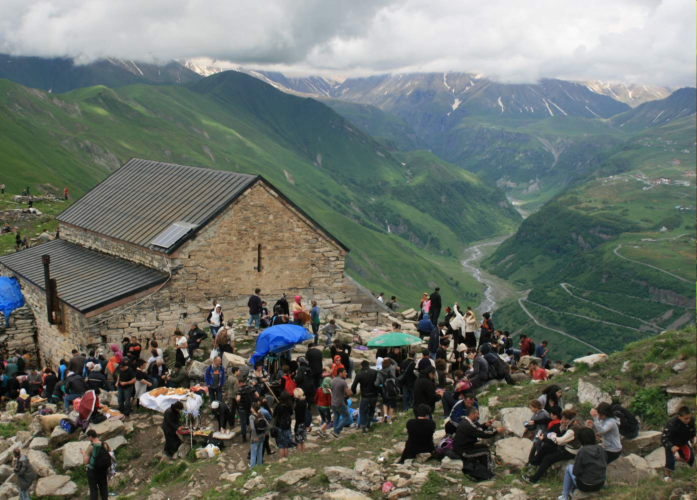 The festival Lomisoba in Georgia, 2011